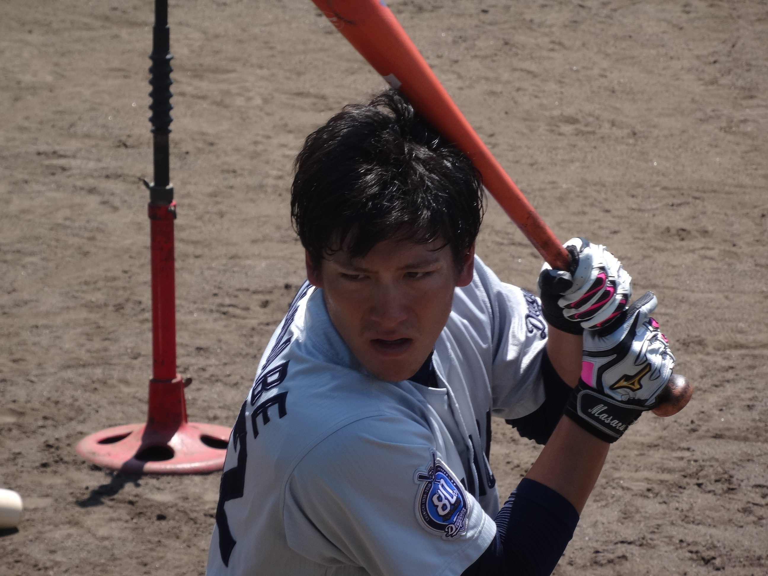 Masaru Watanabe, outfielder of the Chunichi Dragons, at Hanshin Naruohama Baseball Ground